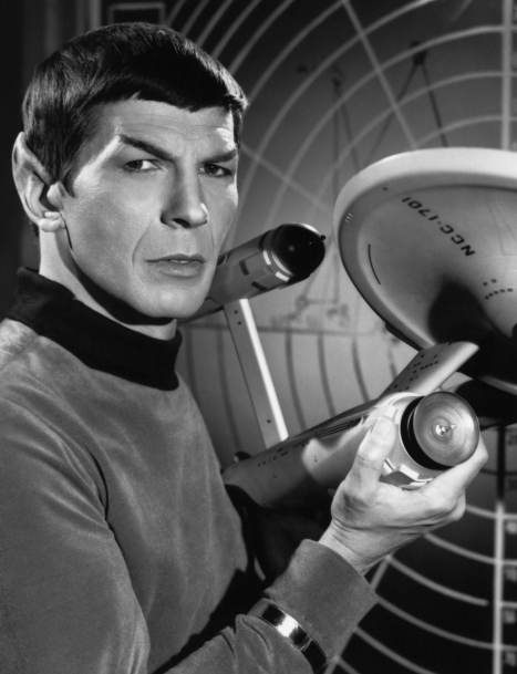 Publicity photo of Leonard Nimoy as Spock on Star Trek tv show.